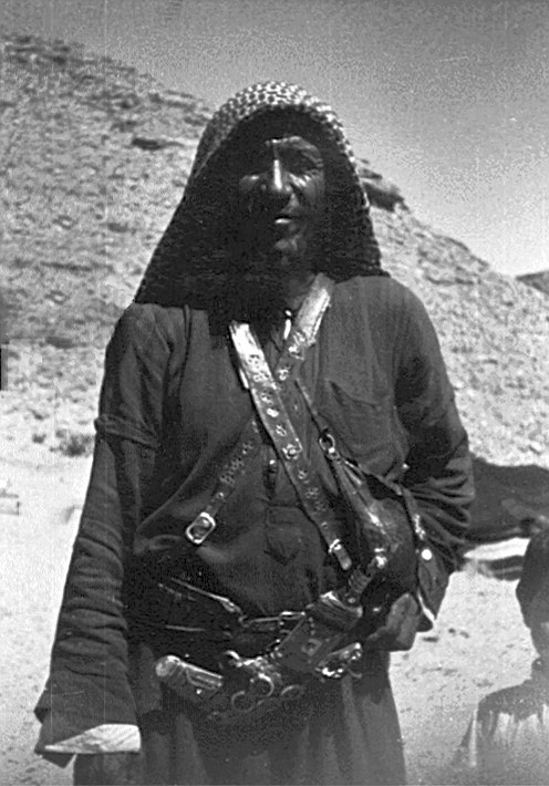 Bedouin man outside Riyadh, Saudi Arabia, 1964.